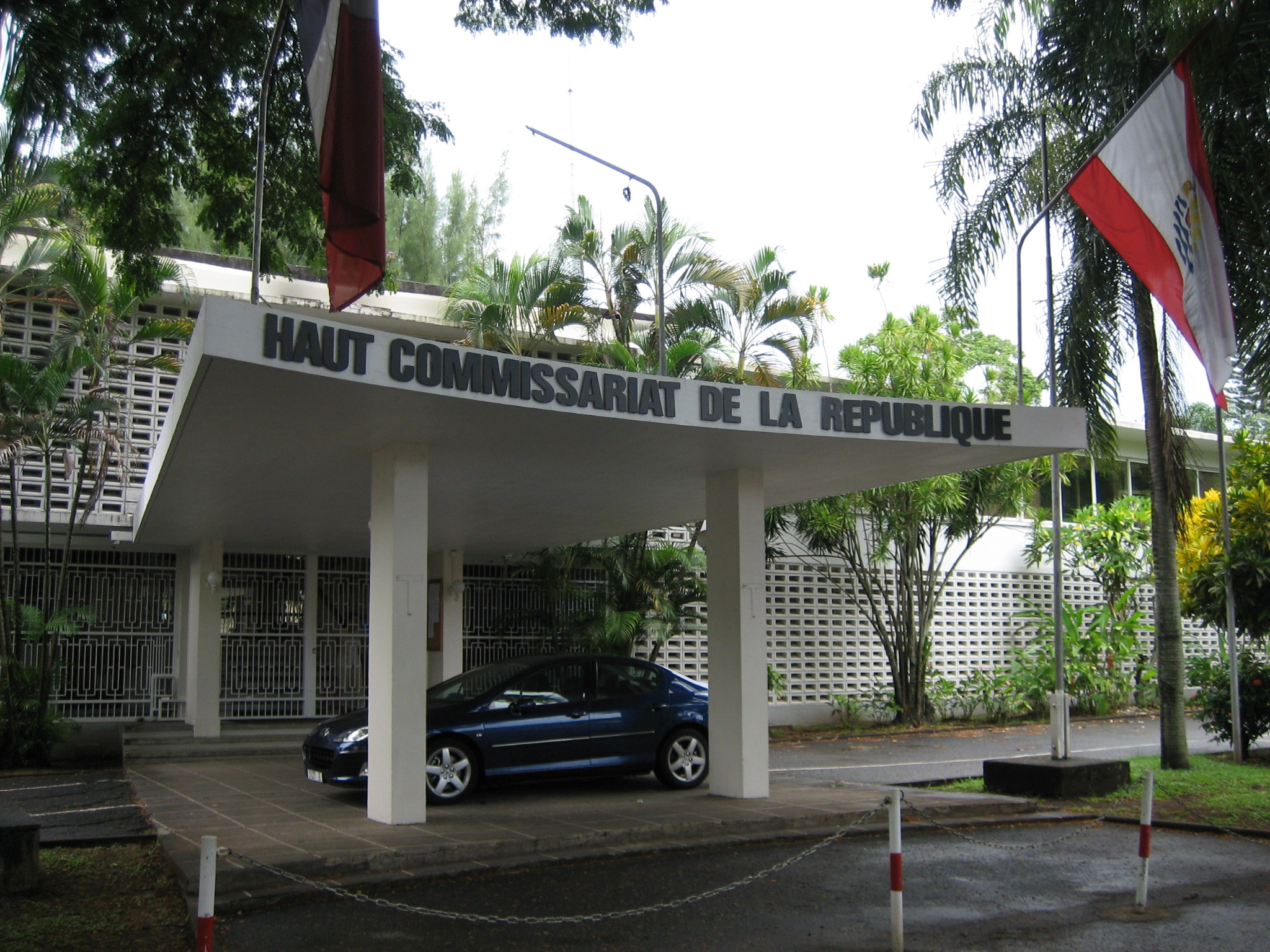 High Commission of the French Republic in Papeete